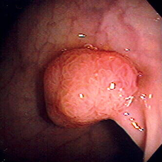 Colon polyp on a short stalk. Attribute to Stephen Holland, M.D., Naperville Gastroenterology, Naperville, IL, USA. Category:Endoscopic images